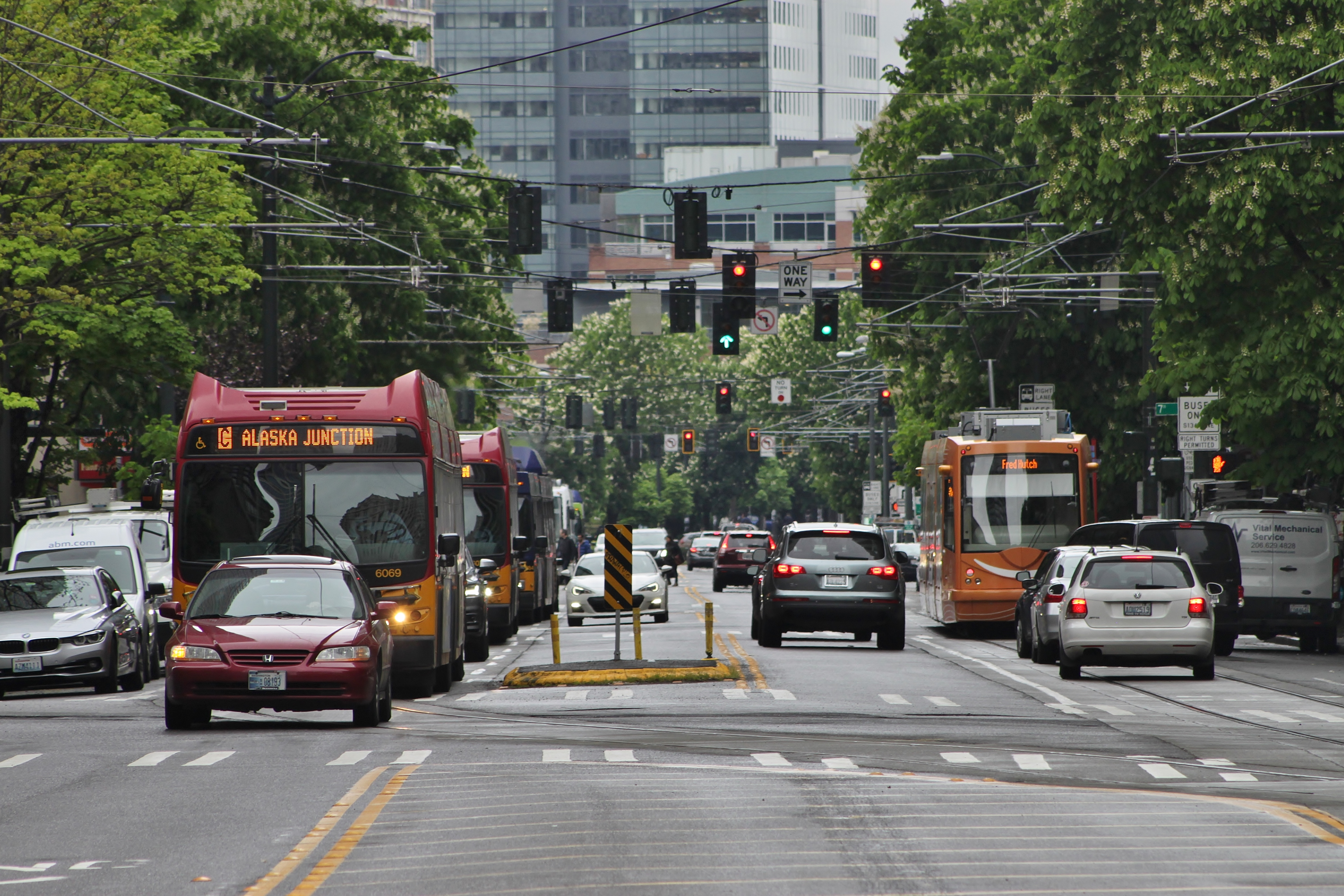 Buses on the RapidRide C Line (left) and the South Lake Union Streetcar (right) passing on Westlake Avenue in Seattle, Washington, near the Amazon campus.